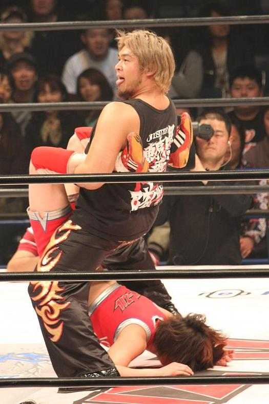 Mazada applying a Boston crab to Chie